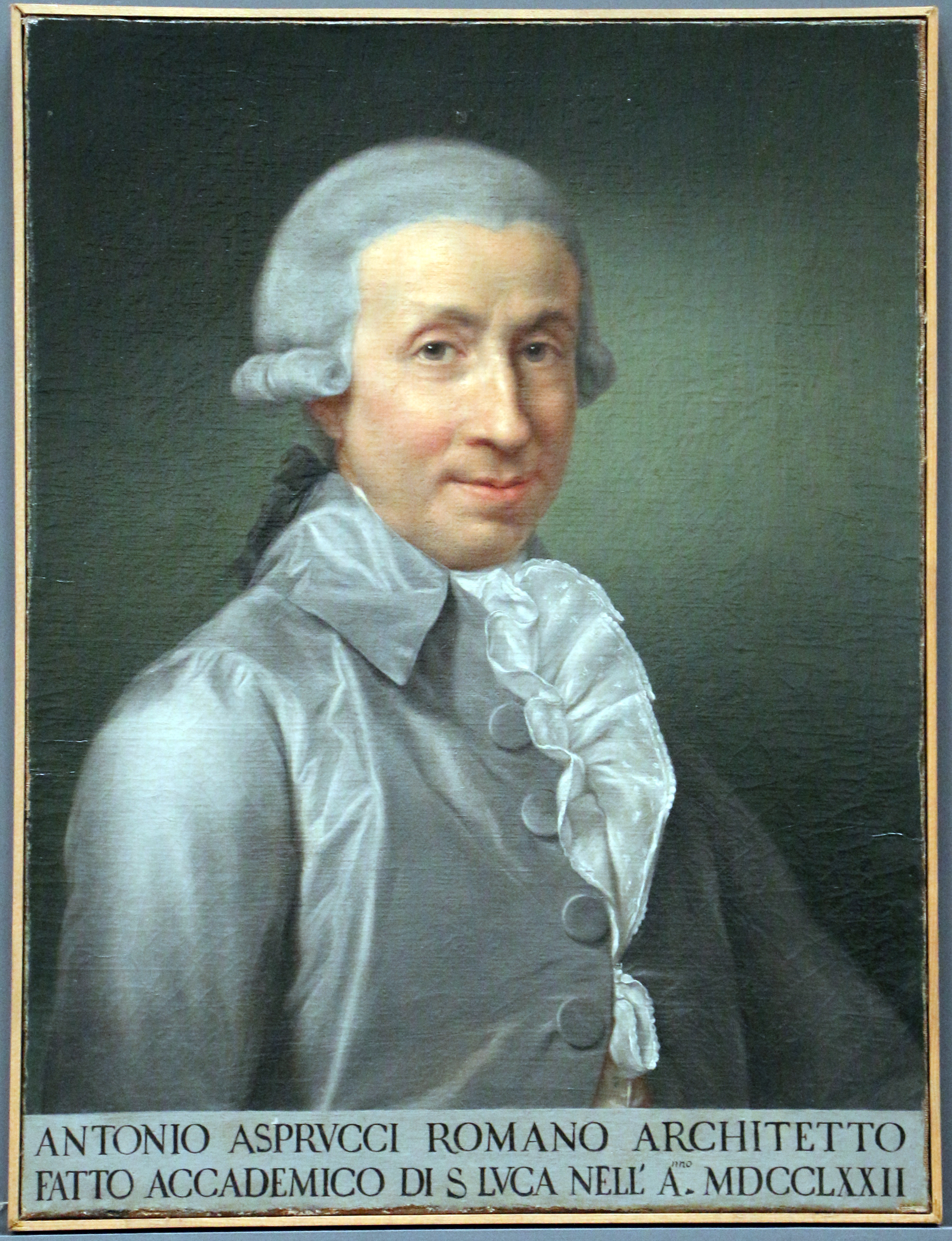 Accademia di San Luca - Gallery